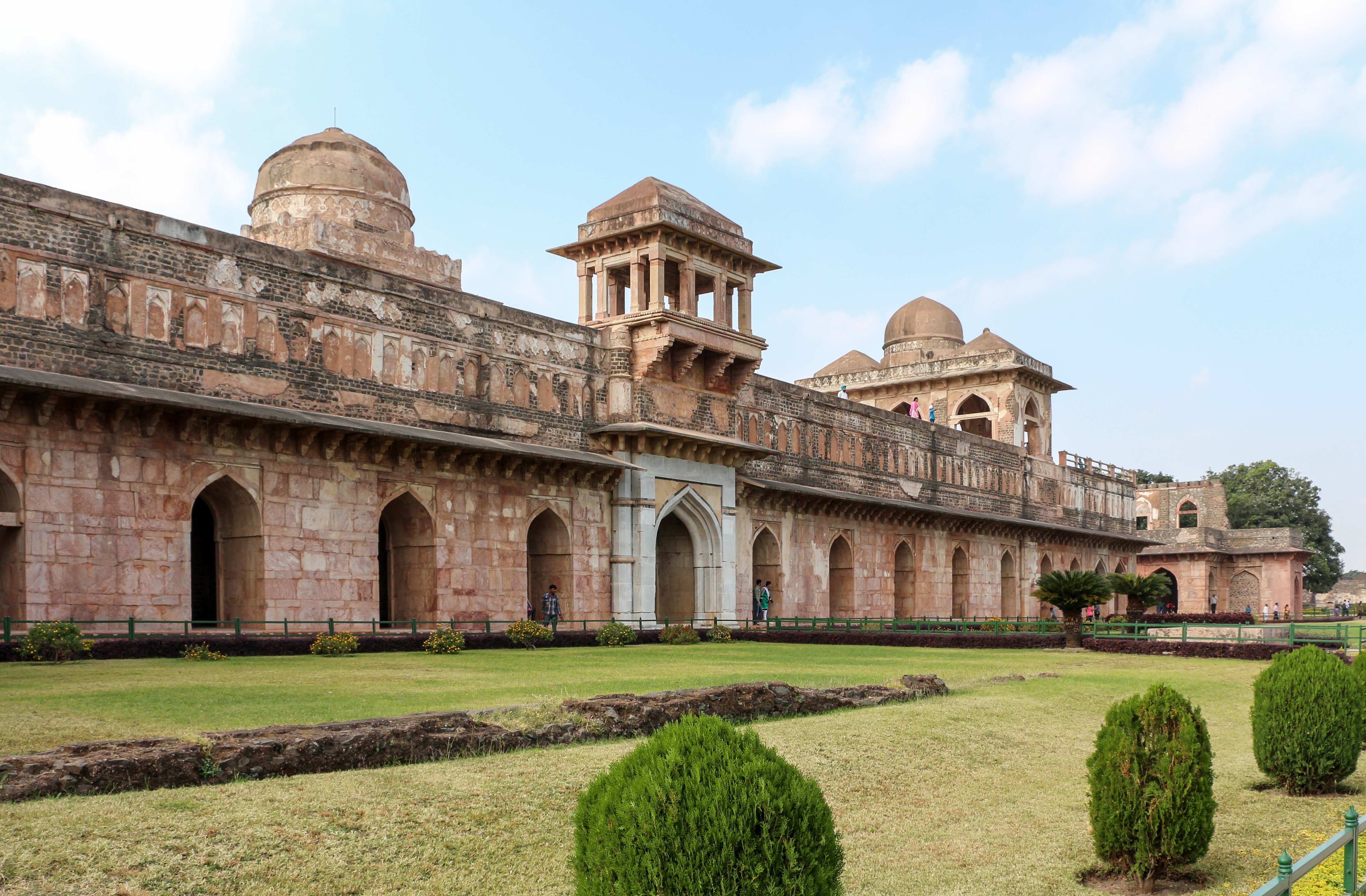 Facade of the Jahaz Mahal, Mandu, India